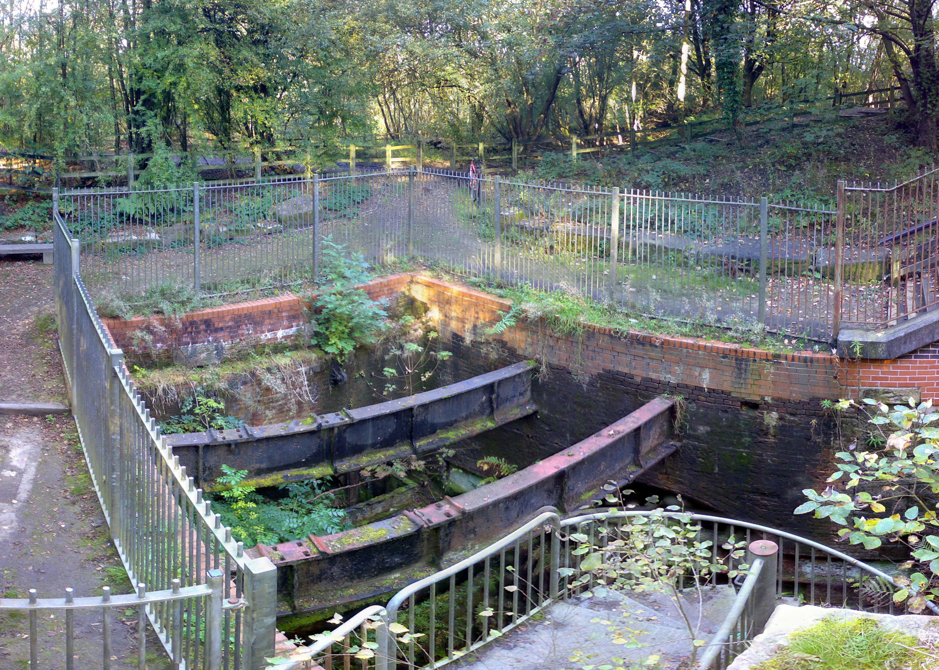 The excavated wheelpit at Wet Earth Colliery. Please note the walls are straight, it is the extreme wide angle shot (a composite image) that makes the image appear barrelled.